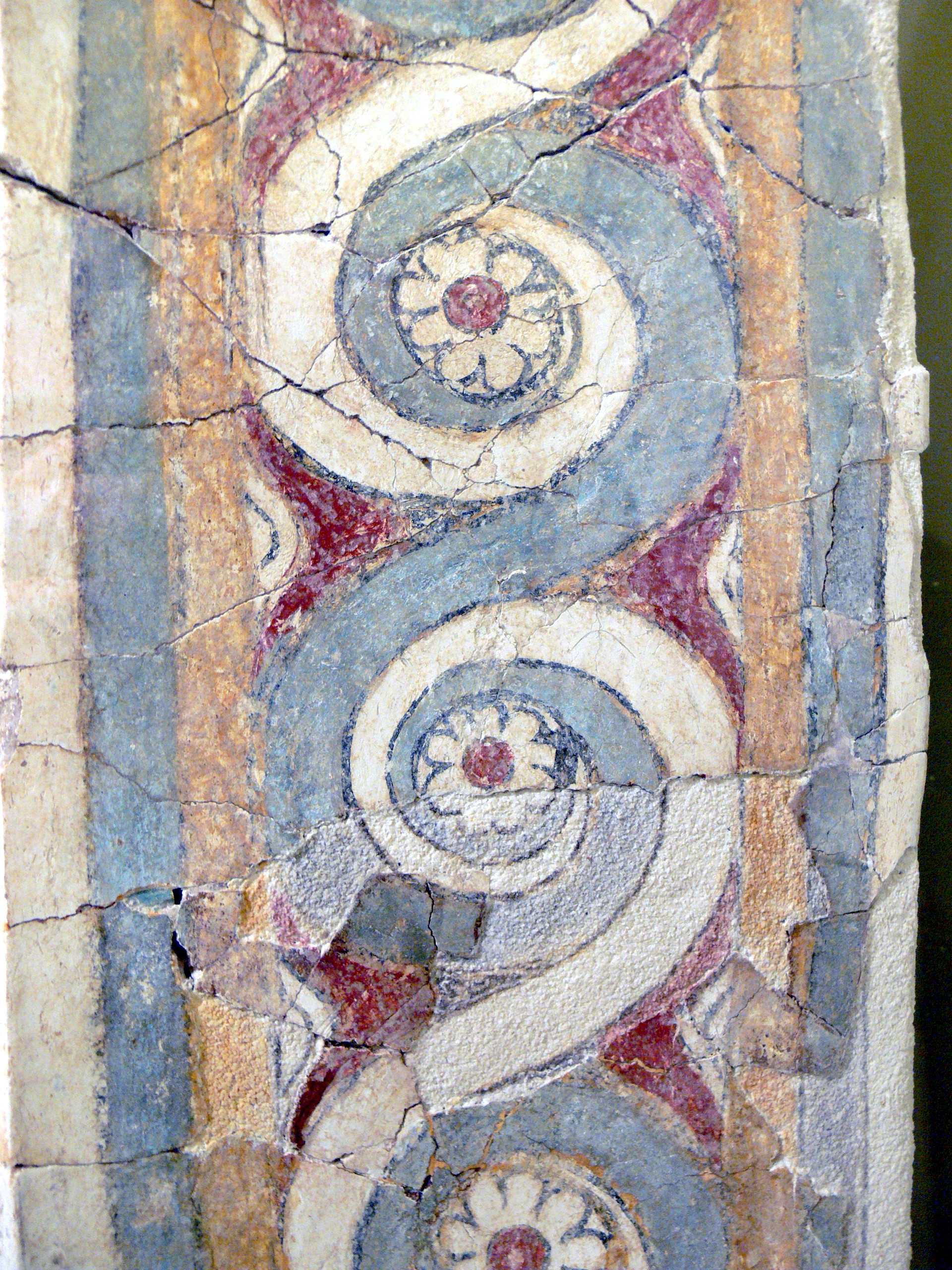 Archaeological Museum of Herakleion. Sarcophagus of Agia Triada ( 1600 - 1450 B.C.) - detail: Ornament.